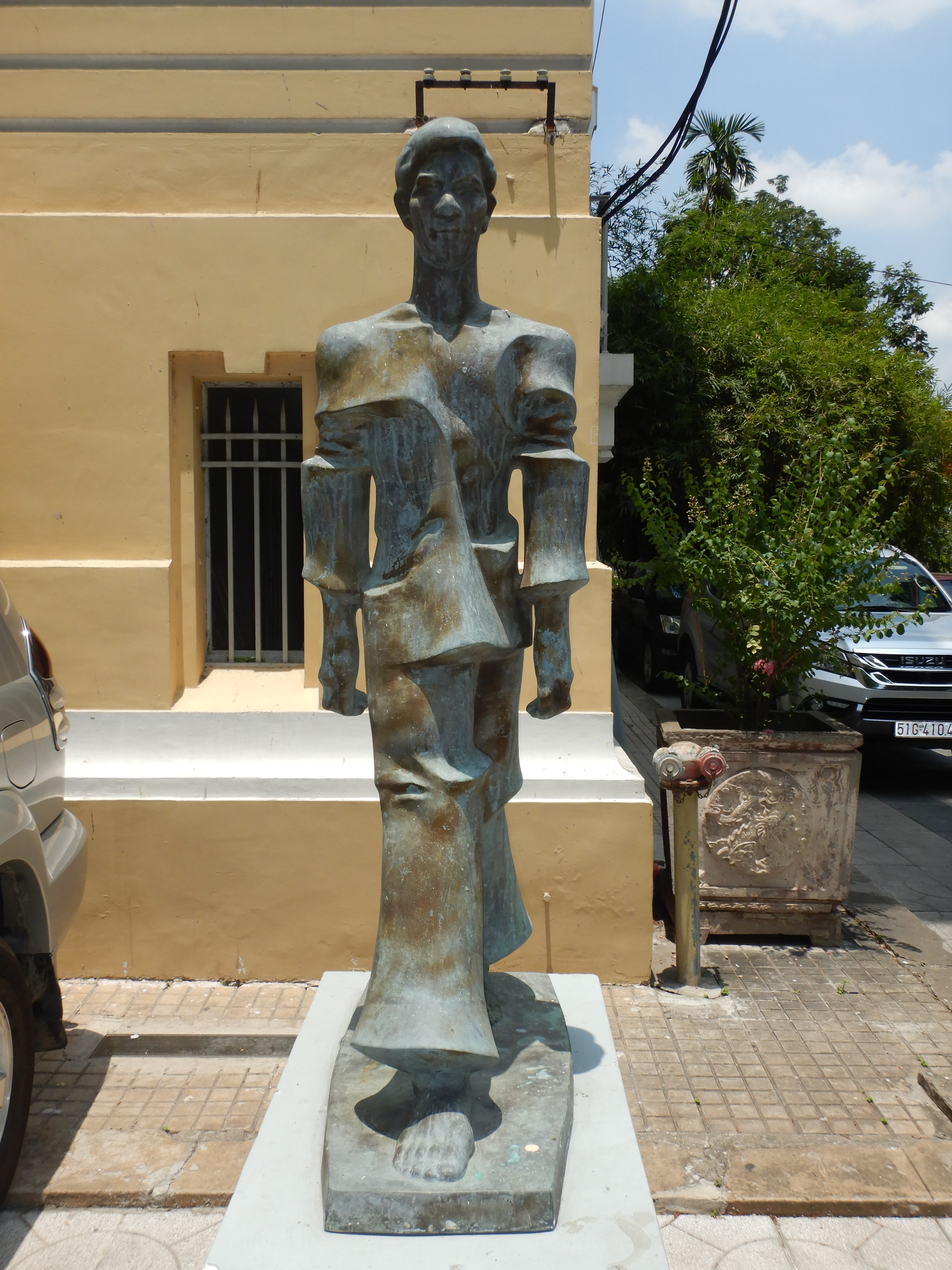 Reproduction of bronze statue "Nguyễn Văn Trỗi" in Ho Chi Minh City Museum of Fine Arts. It was made by Nguyễn Hải (1933-2012) in 1994. Dimensions: 145 × 45 cm.